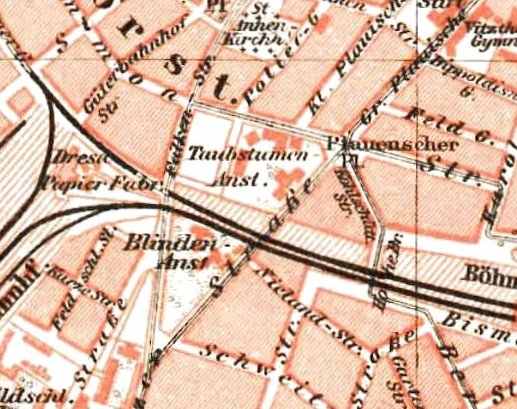 Map of Dresden, about 1895.